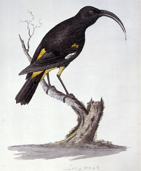 Ff. 27, watercolour by William Ellis from a collection of sketches of Mammals, Birds and Fish Made on Captian James Cook's third voyage (1776-1780).